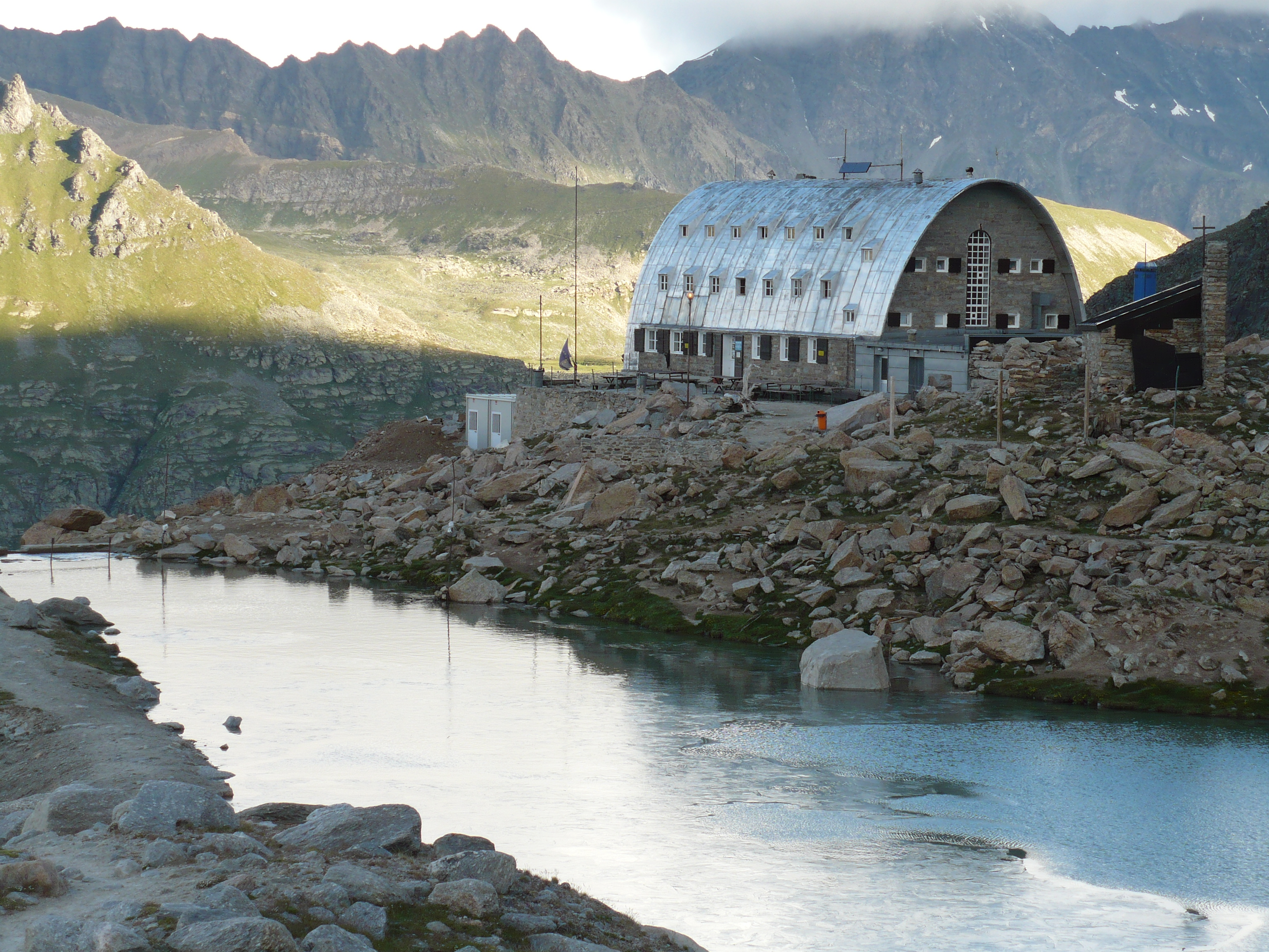 Rifugio Vittorio Emanuele II (2735 metres), Graian Alps, Aosta Valley, Italy.